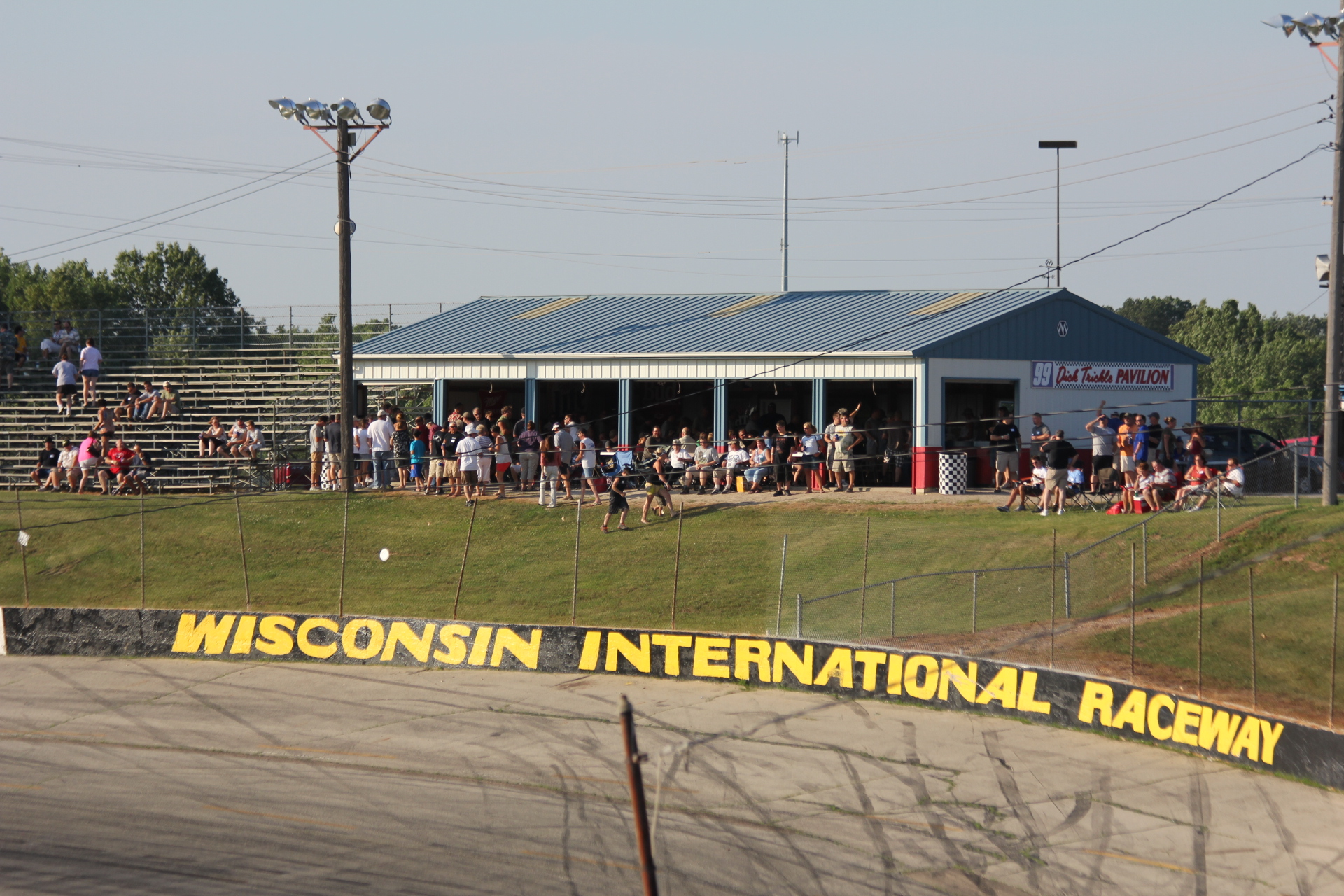 The Dick Trickle Pavilion in Turn 1 to 2 at the Wisconsin International Raceway.